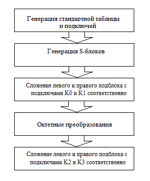 Scheme of the Khufu Algorithm